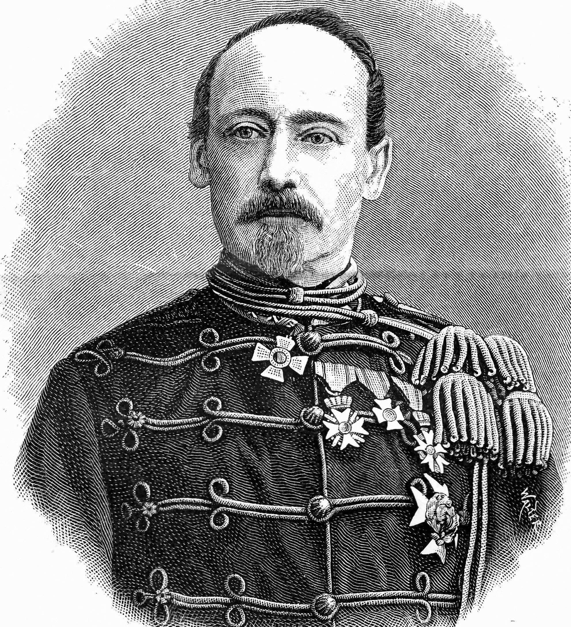 Generaal G.P. Booms